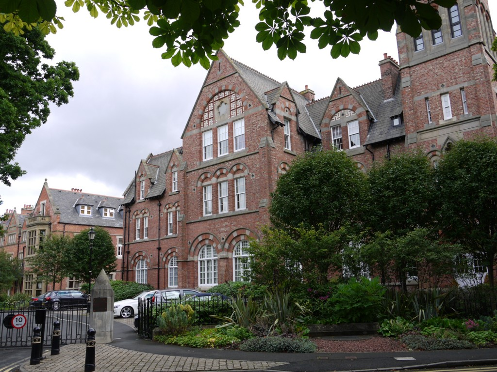 Princess Mary Court, Abbotsford Road